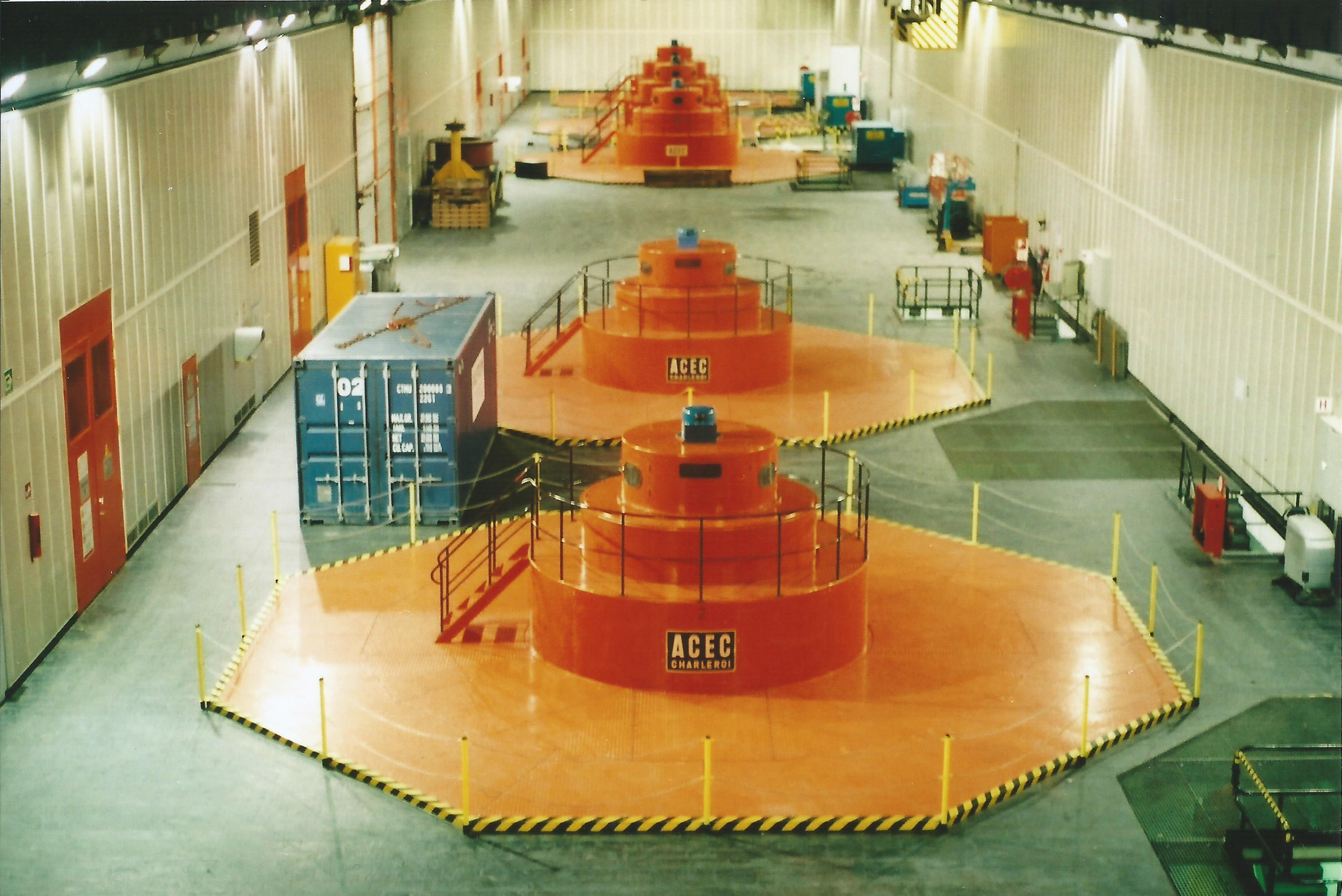 Coo-Trois-Ponts Hydroelectric Power Station - rotors